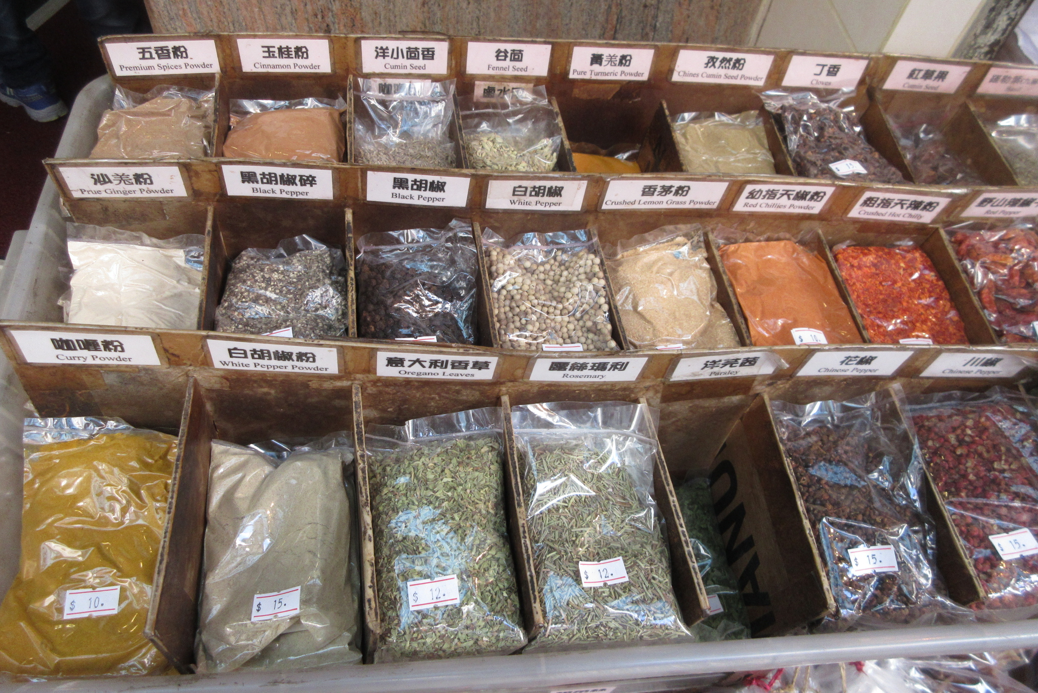 HK 上環 Sheung Wan 皇后大道中 Queen's Road Central 偉利大廈 Welland Building shop Woo Hing Preserved Meat Company in January 2018